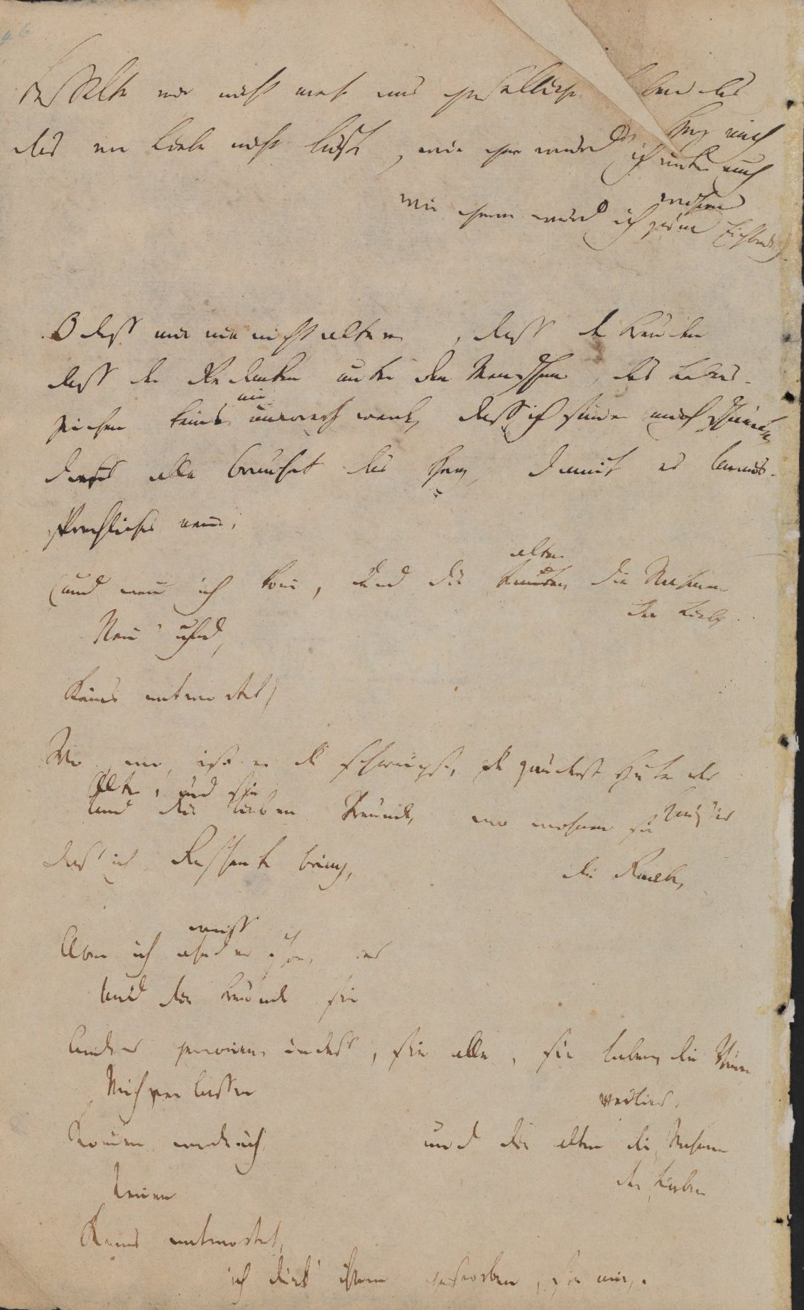 Friedrich Hölderlin: Die Eichbäume, Hölderlin's copy from first print, page 2